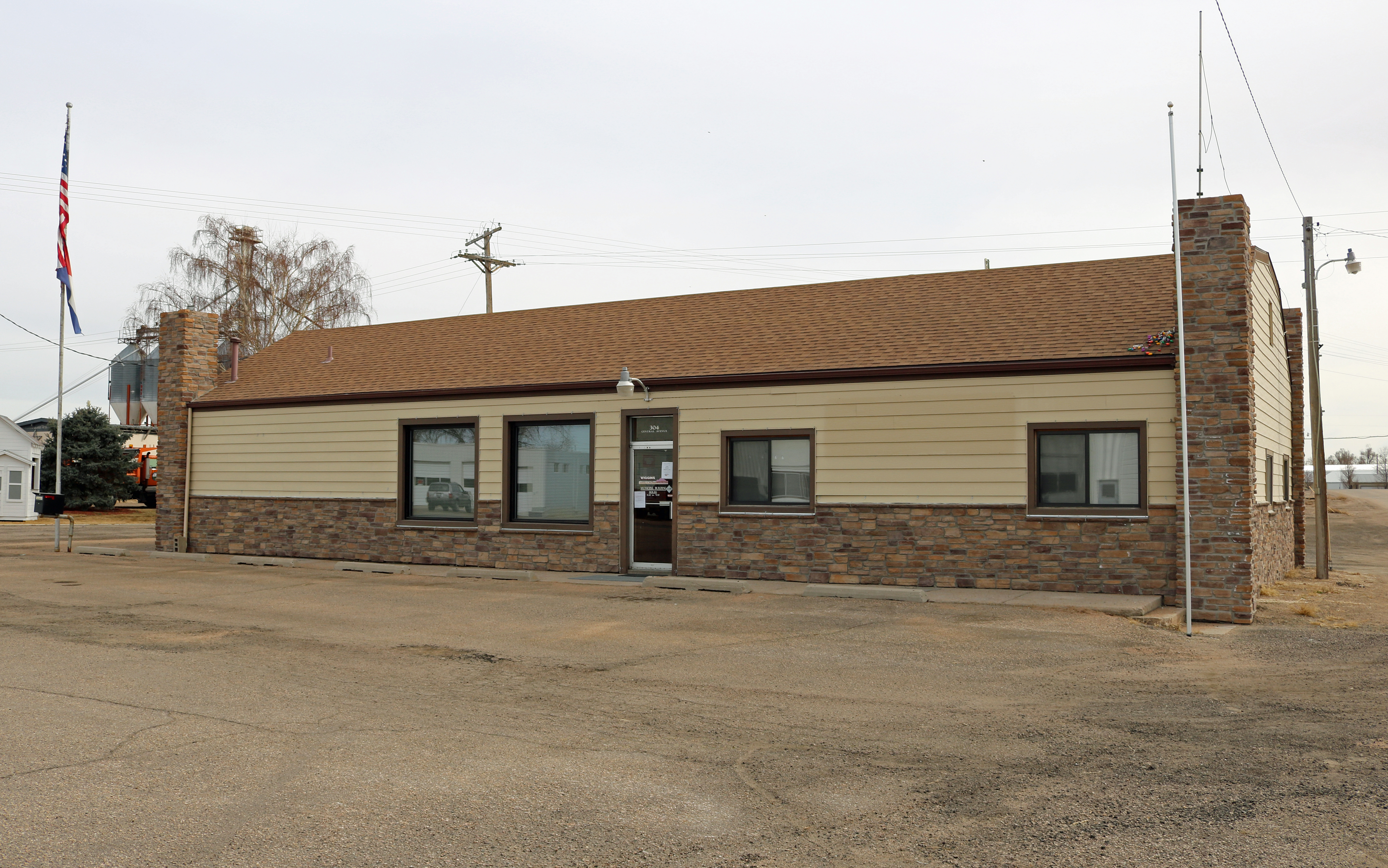 The Wiggins, Colorado Municipal Building, located at 304 Central Avenue in Wiggins Colorado.